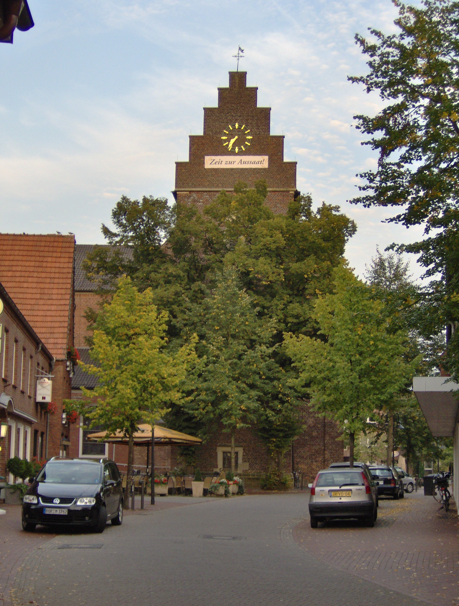 Kirchstraße with the catholic church St. Mariä Himmelfahrt in Alstätte, municipality of Ahaus in North Rhine-Westphalia, Germany